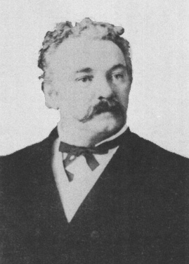 Paul Neumann was a lawyer born in Germany, who then lived in California, and moved to Hawaii. He served twice as Attorney General in the Kingdom of Hawaii, from December 1883 – March 1886 under King Kalakaua, and in 1892 for Queen Lili'uokalani. He was also the Queen's personal lawyer after she was deposed and arrested for treason.